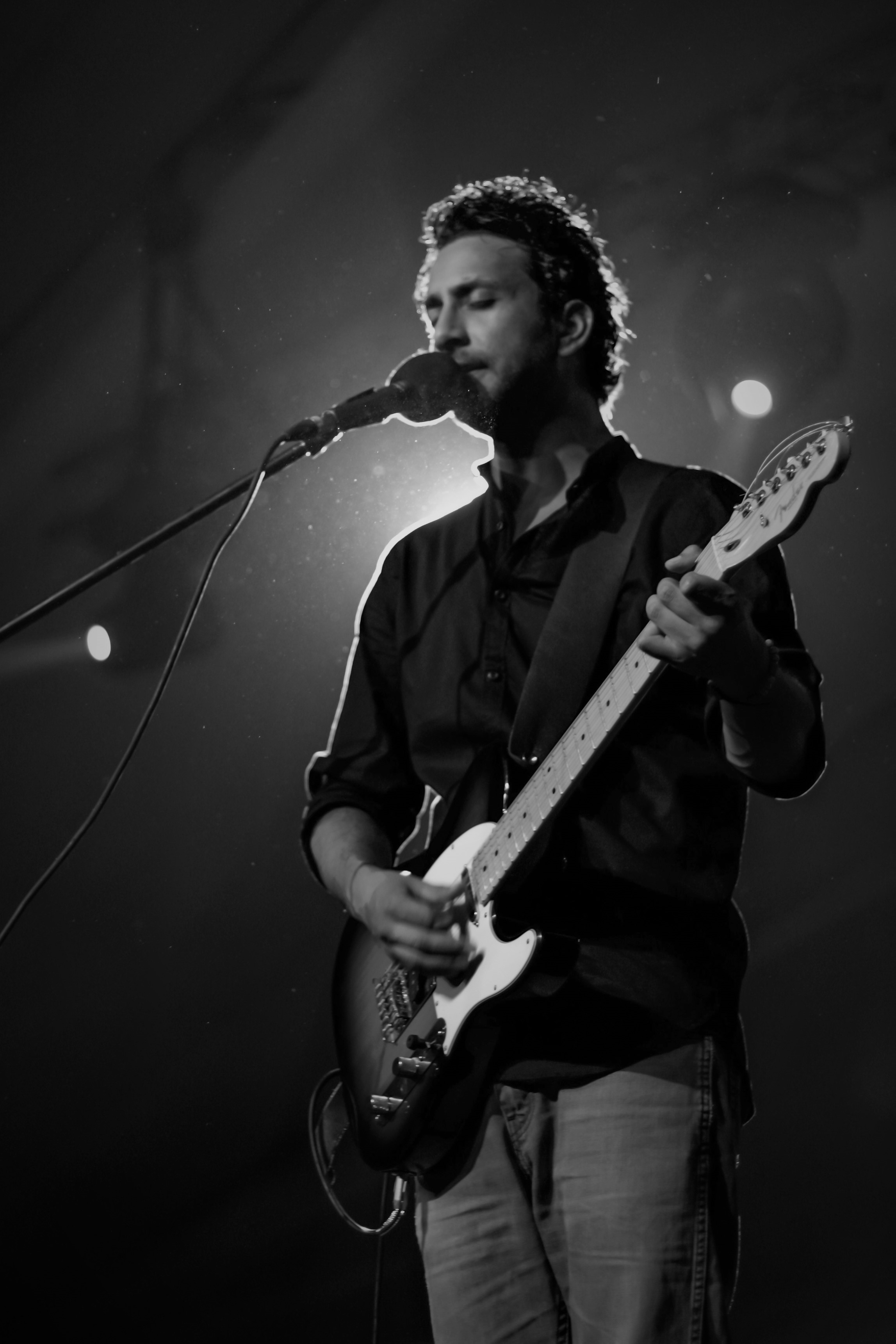 Mahmdoud Radaideh, the lead singer and guitarist of the Jordanian contemporary Arabic Rock band performs at Cairo's Music Tent | October 29, 2015 Since the turn of the millennium, Cairo has been witnessing the rise of an alternative music scene where more This is an image from Egypt